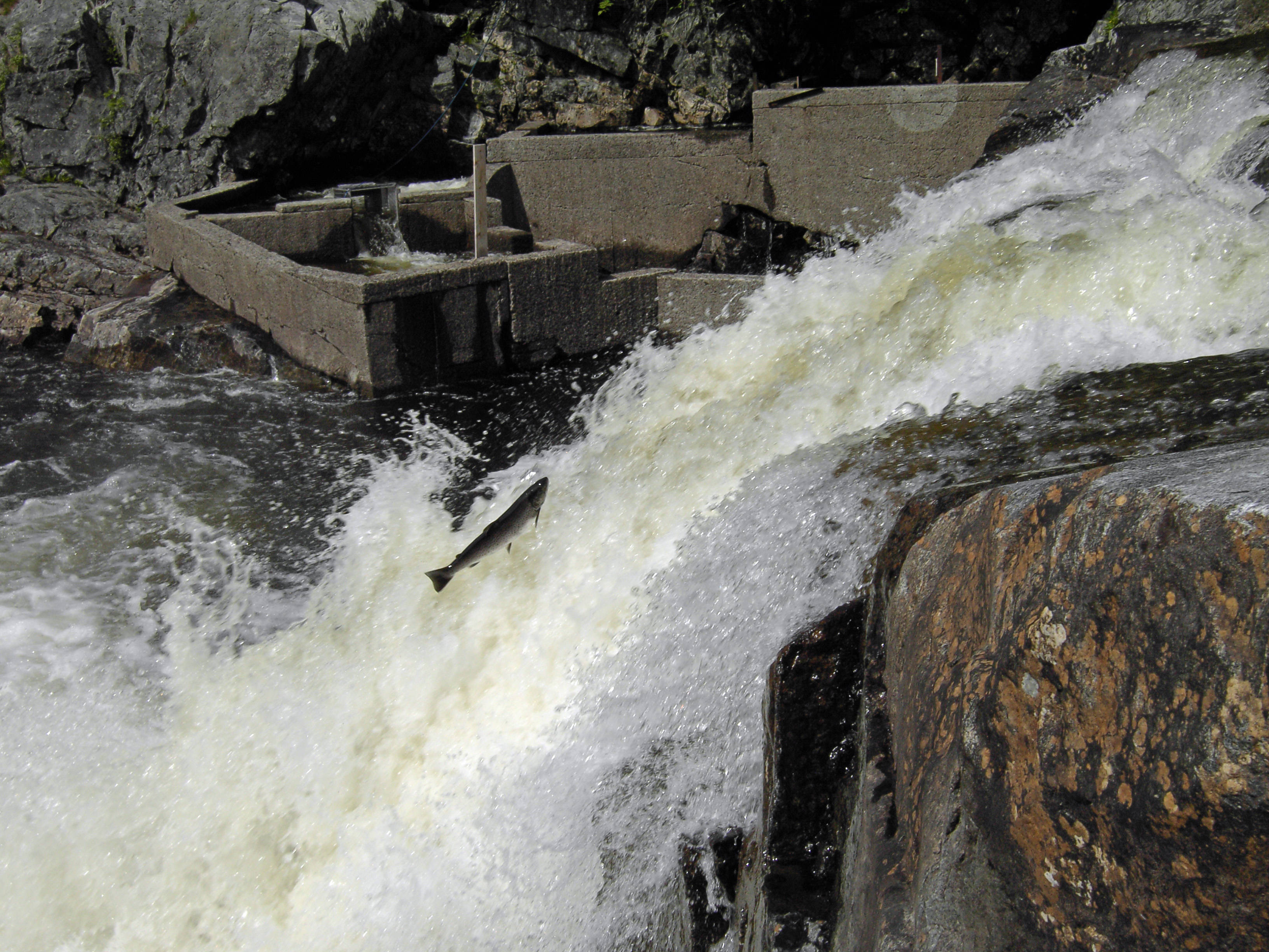 A salmon in Støvelfossen in Stordalselva, Åfjord, Sør-Trøndelag, Norway. The fish ladder can be seen in the background.